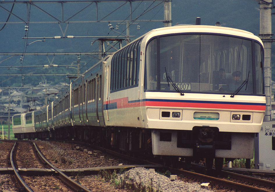 JNR 213 series EMU with Yumeji-type JNR 211 for the rapid Marine Liner train in 11 cars